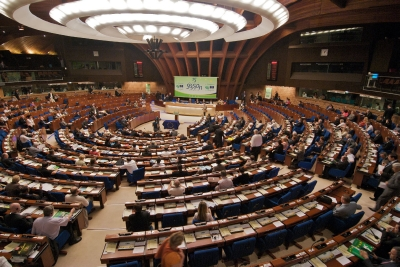 Session of the Congress